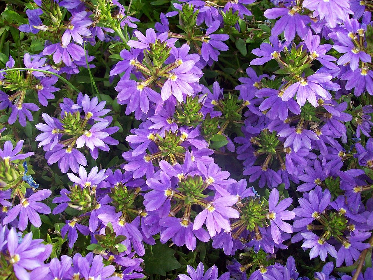 Scaevola aemula (de: Fächerblume), Botanical Garden Heidelberg